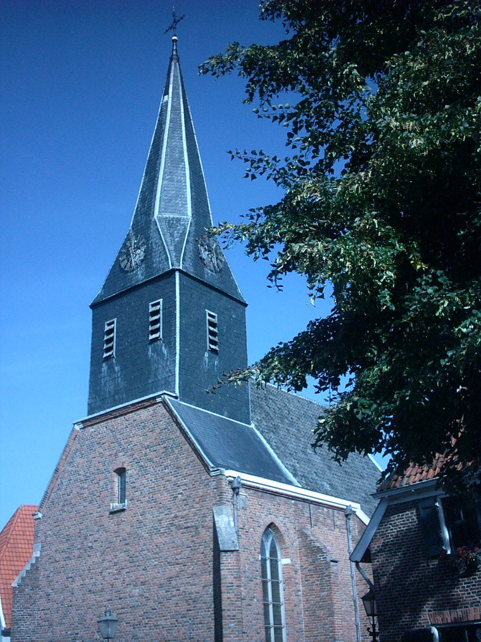 Bredevoort, protestant church